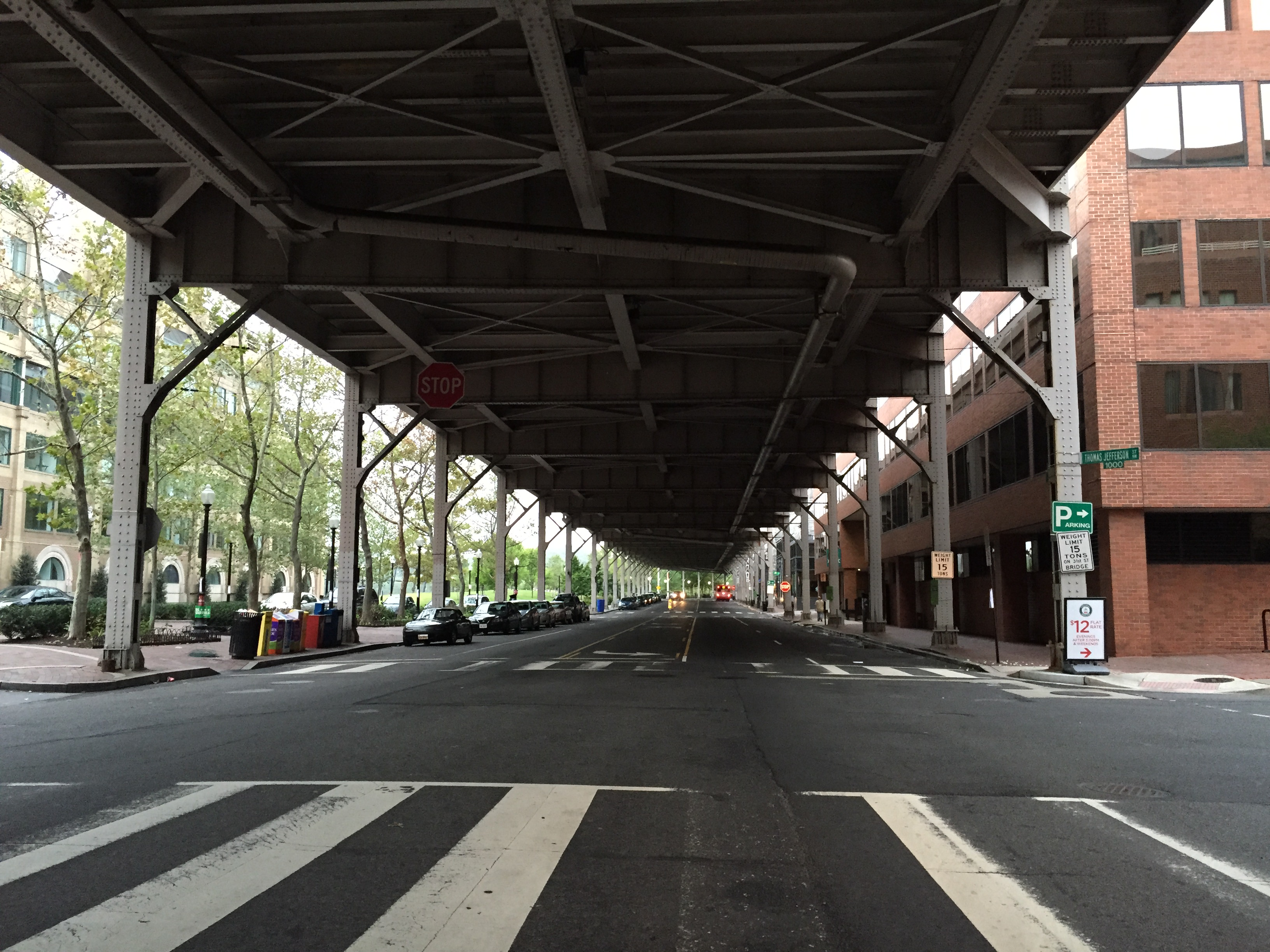 View west along K Street NW at Thomas Jefferson Street NW, directly underneath U.S. Route 29 (Whitehurst Freeway) in Washington, D.C.